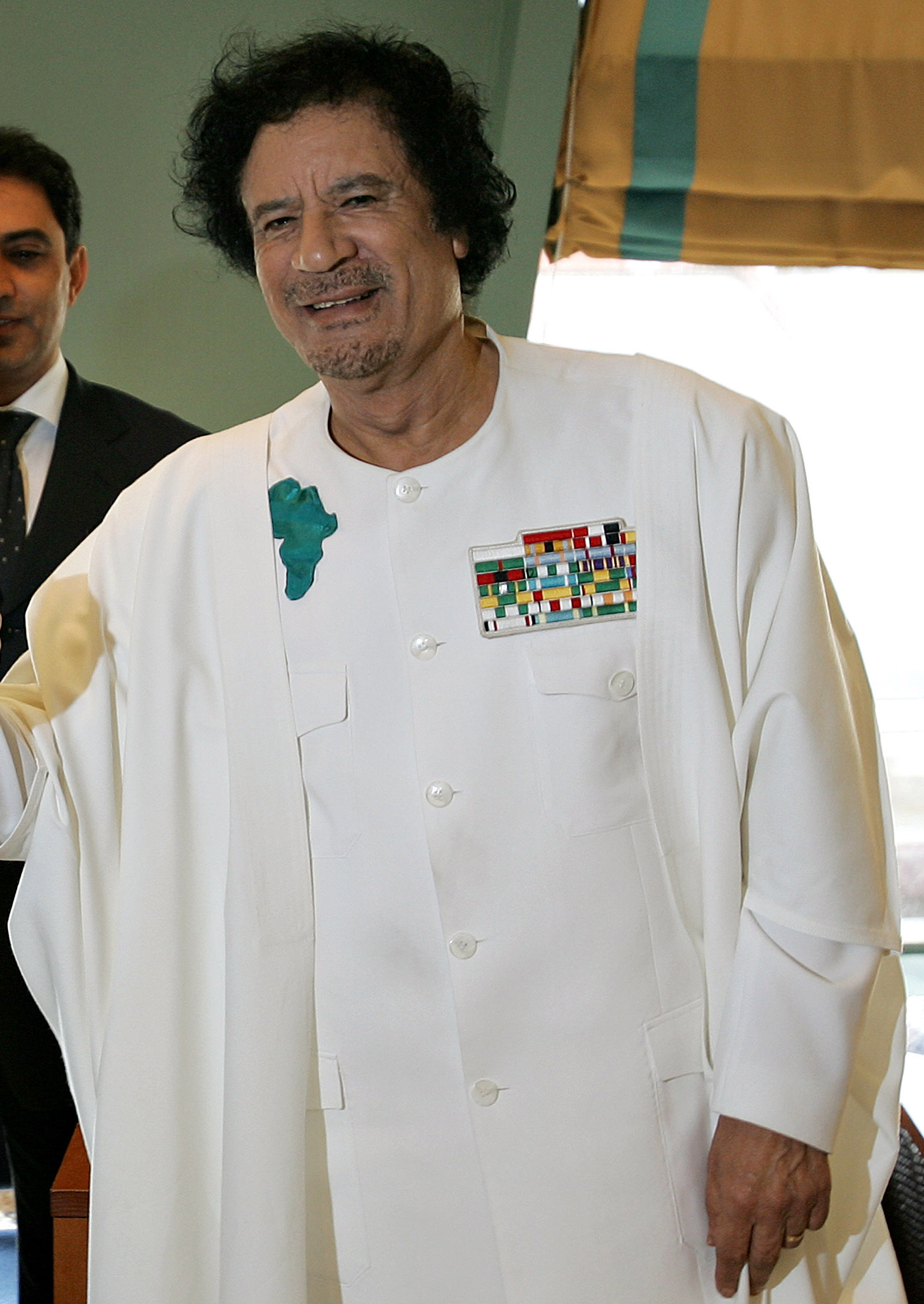 The leader de facto of Libya, Muammar al-Gaddafi.